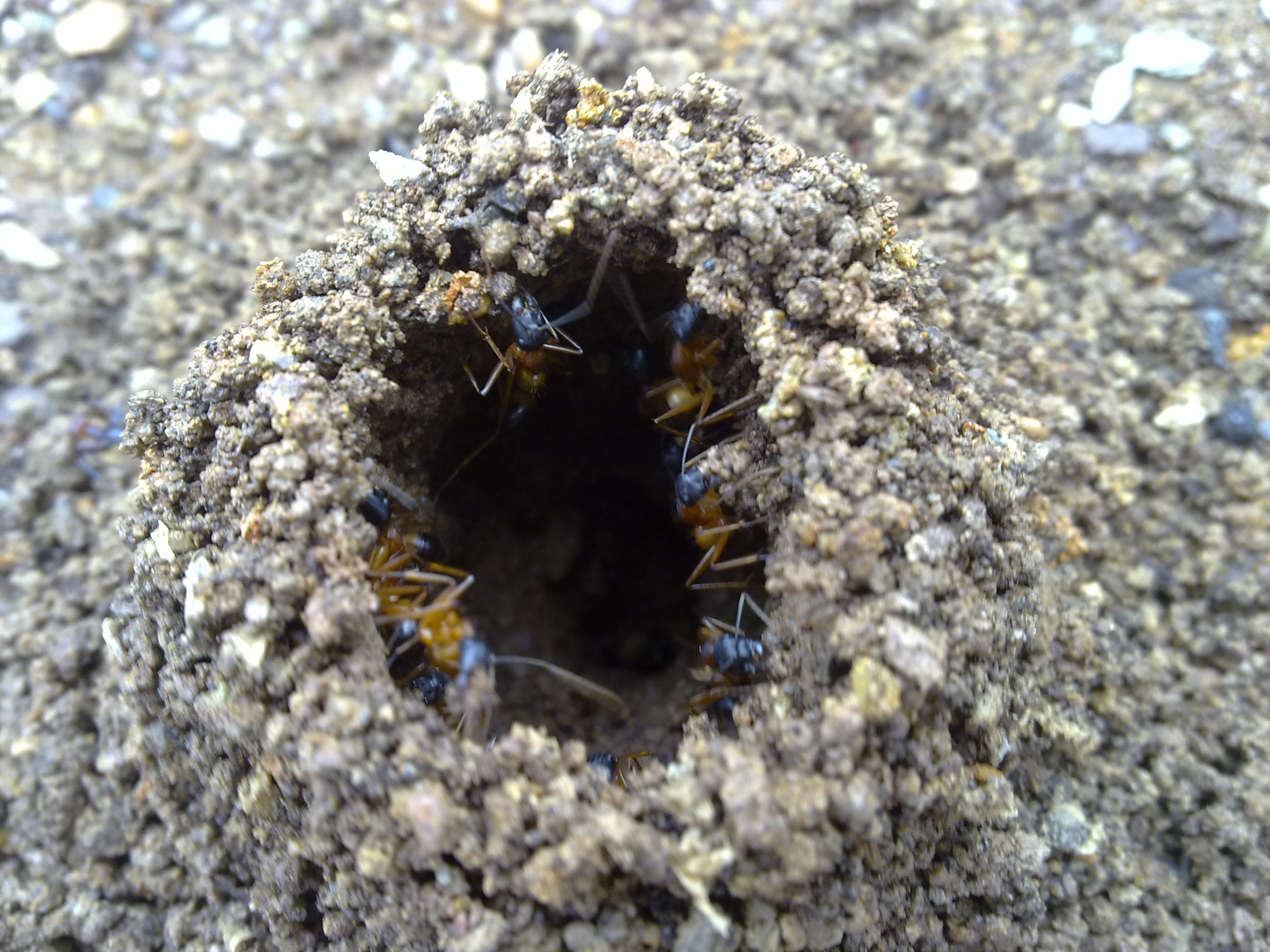 Sugar Ants defend their nest entrance whilst building it up following rain.